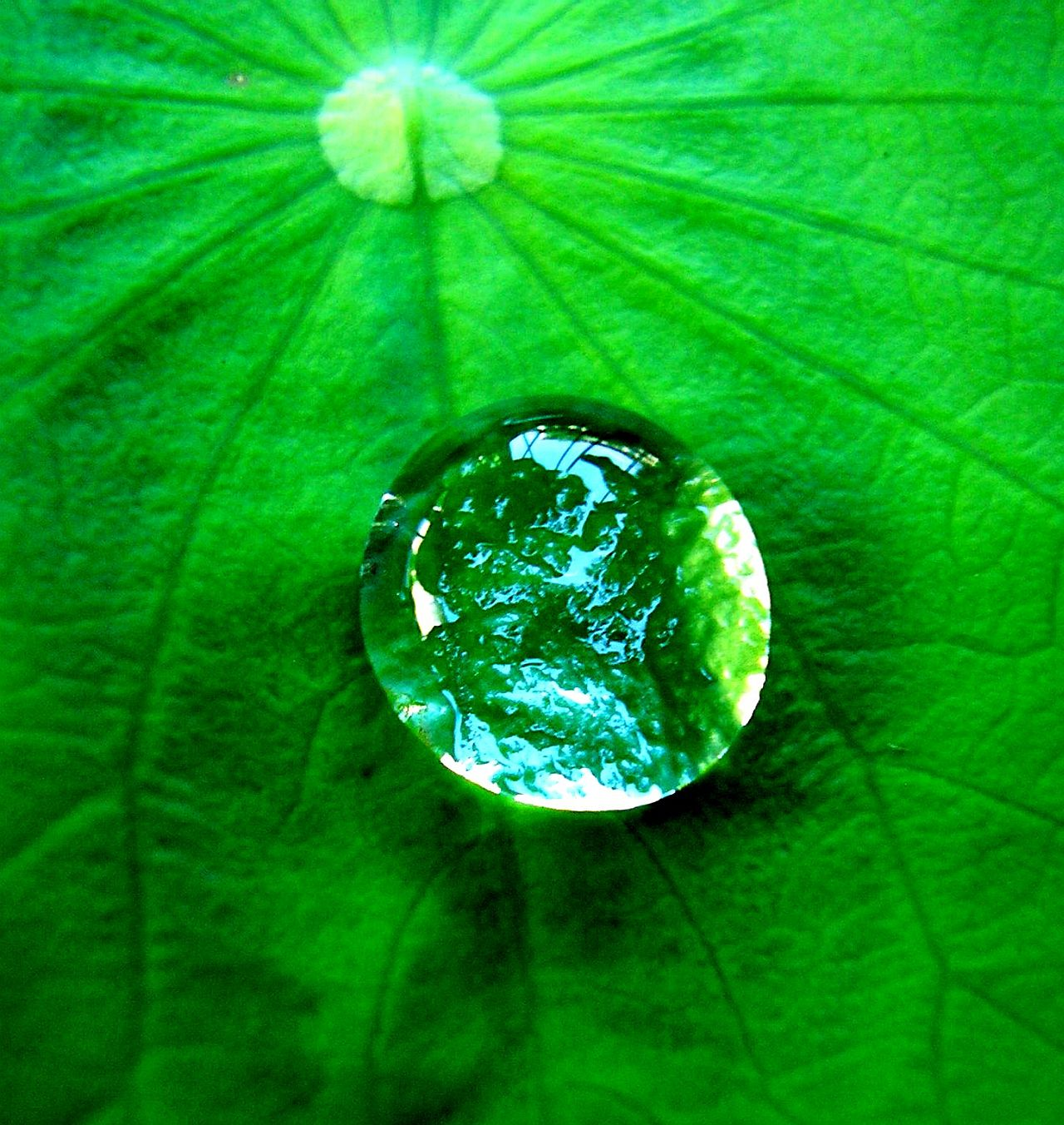 A drop of water on a leaf. The leaf is hydrophobic so the droplet forms into a spherical shape to minimize contact with the surface. The hydrophobic effect occurs when water excludes non-polar molecules. (Original title: The world in a waterdrop)